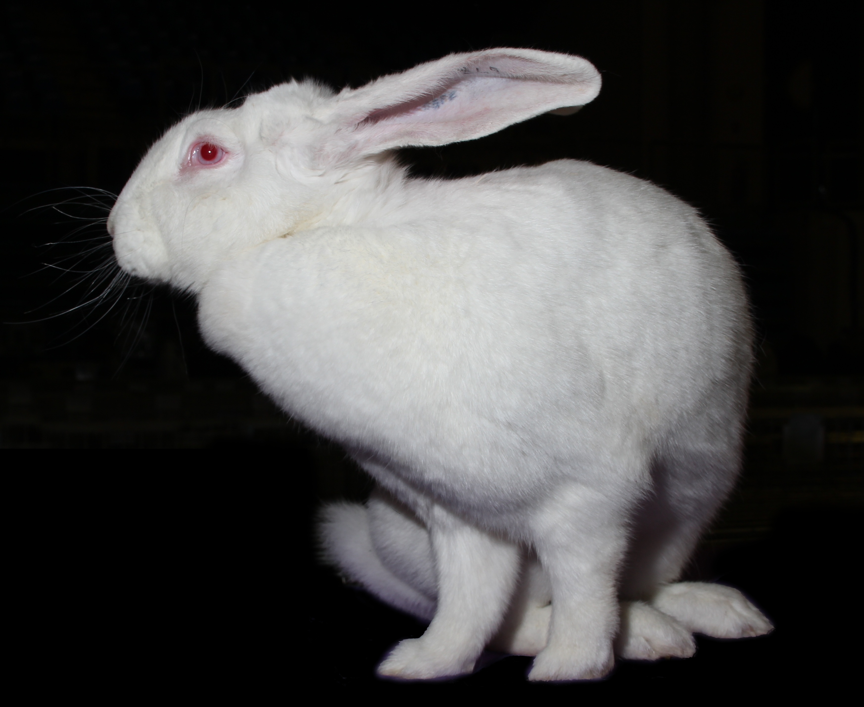 Female rabit Géant blanc du Bouscat at the Fair of agriculture and nature in Essonne 2013 held in Villebon-sur-Yvette, France.